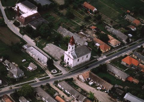 Csajág, Hungary, aerial photography